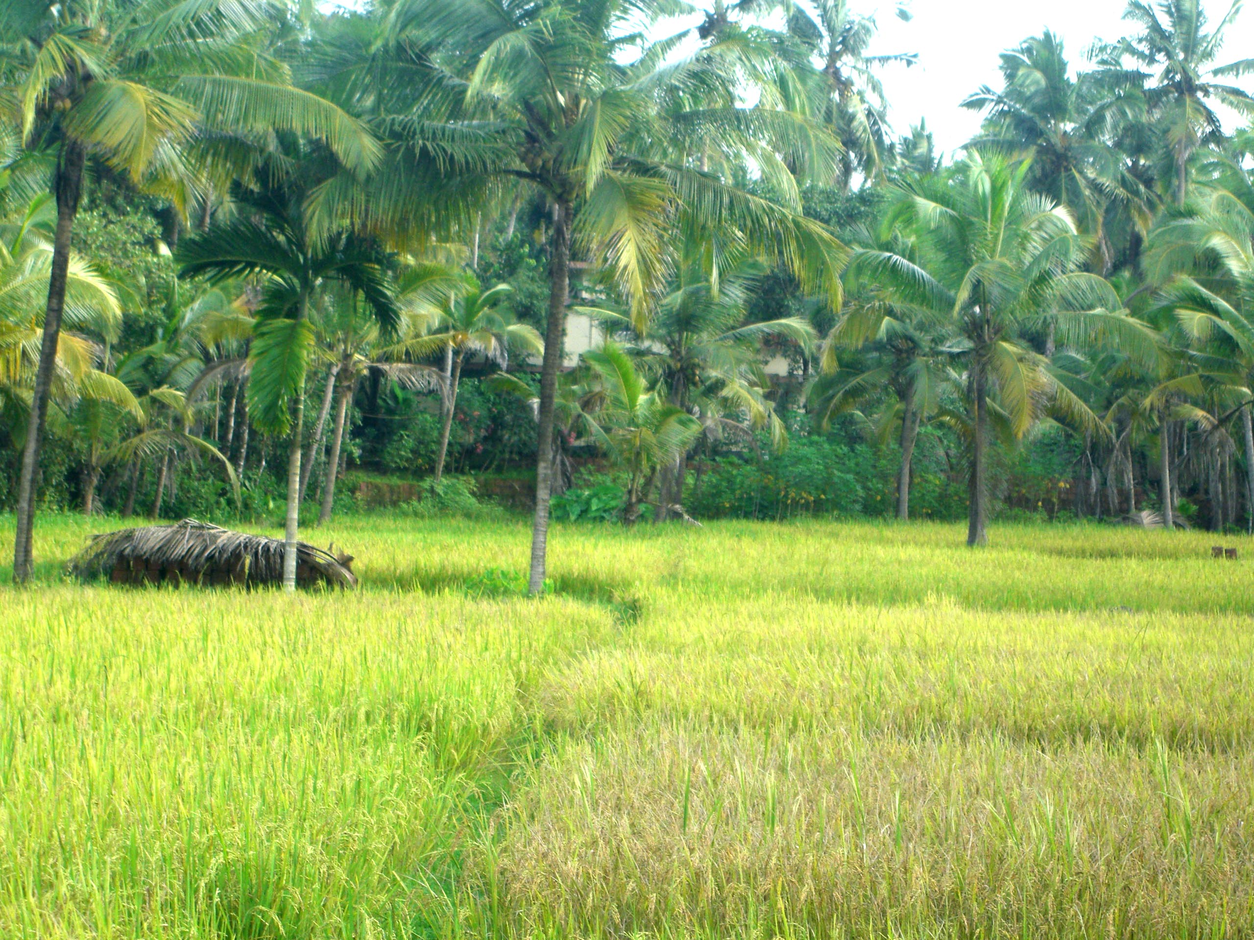 Paddy field - Punnakkulangara